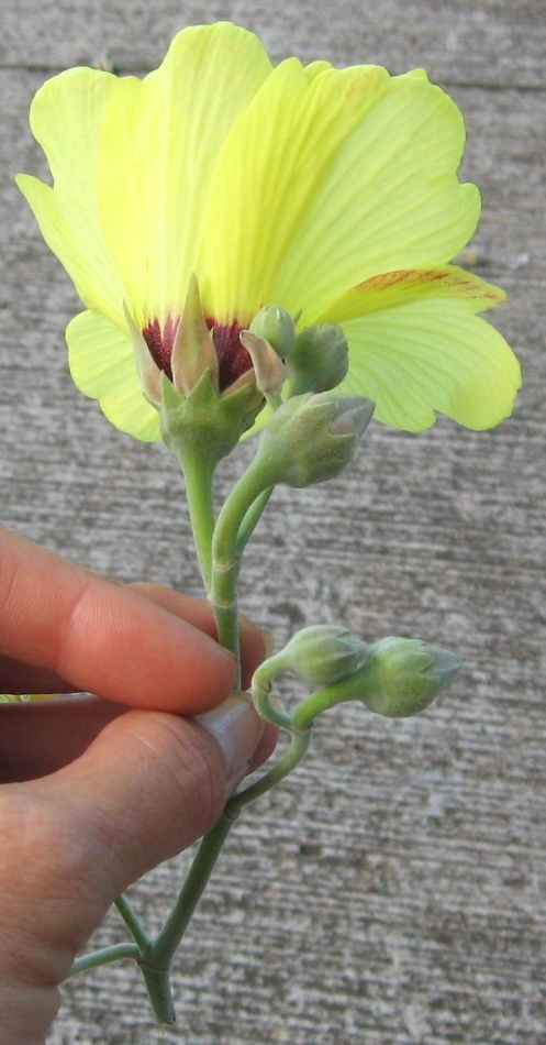 Hibiscus hastatus back of flower